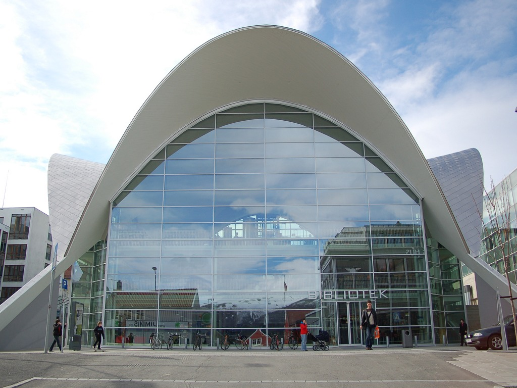 Tromsø library